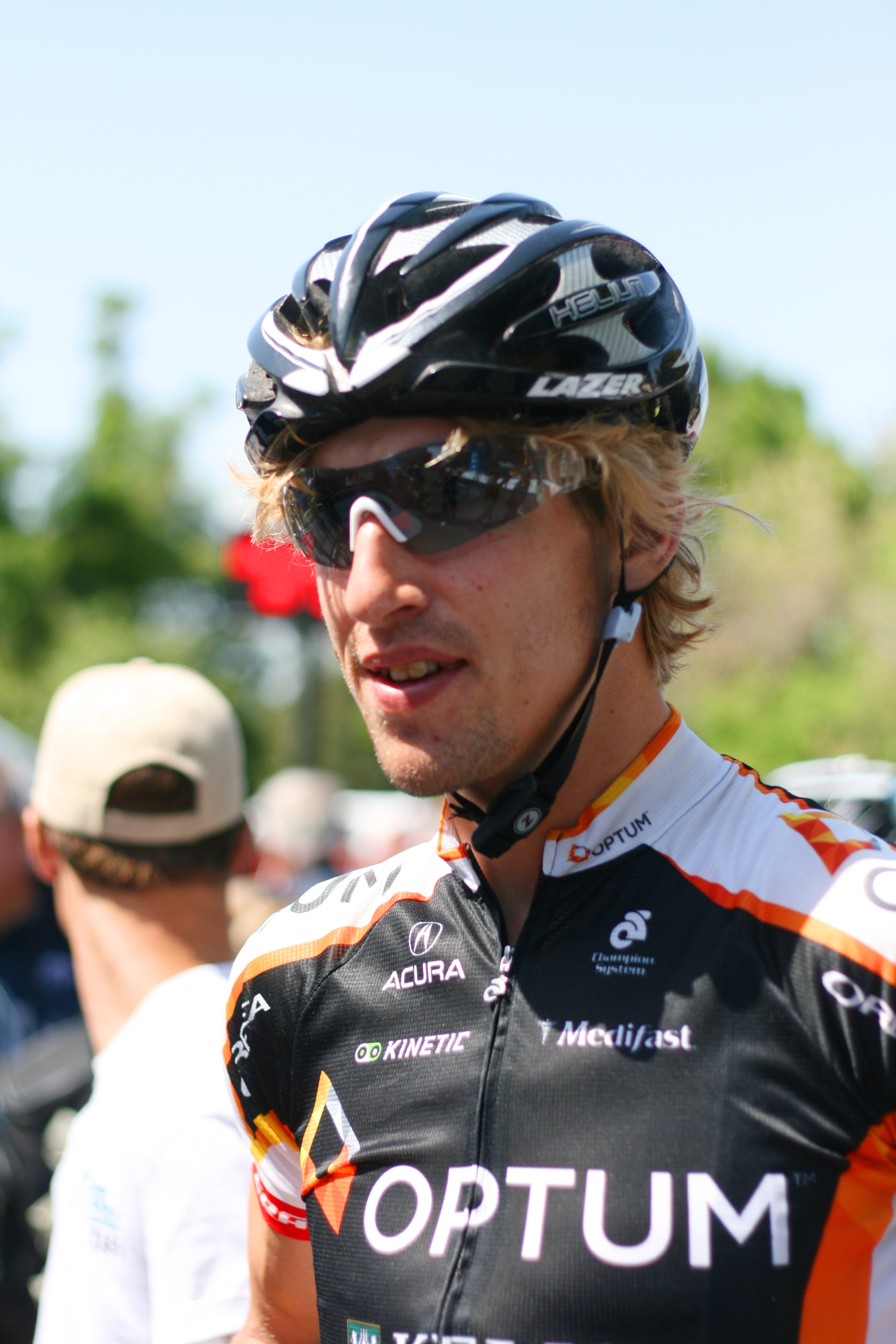 2012 Amgen Tour of California Stage 3 start, Berryessa Road, San Jose, CA